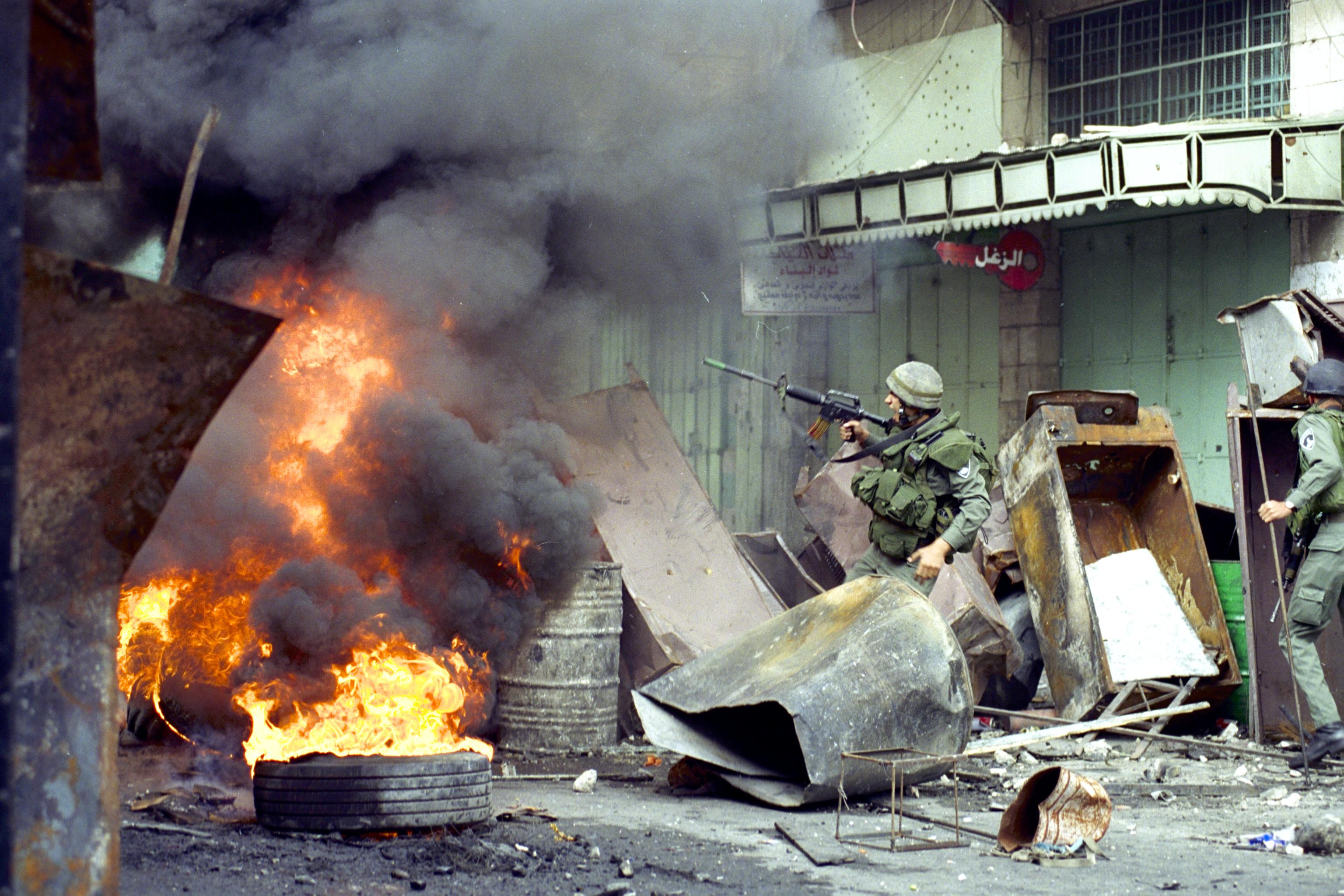 Security and IDF forces confronting Palestinian rioter, at the "Shalla" street in Hebron.